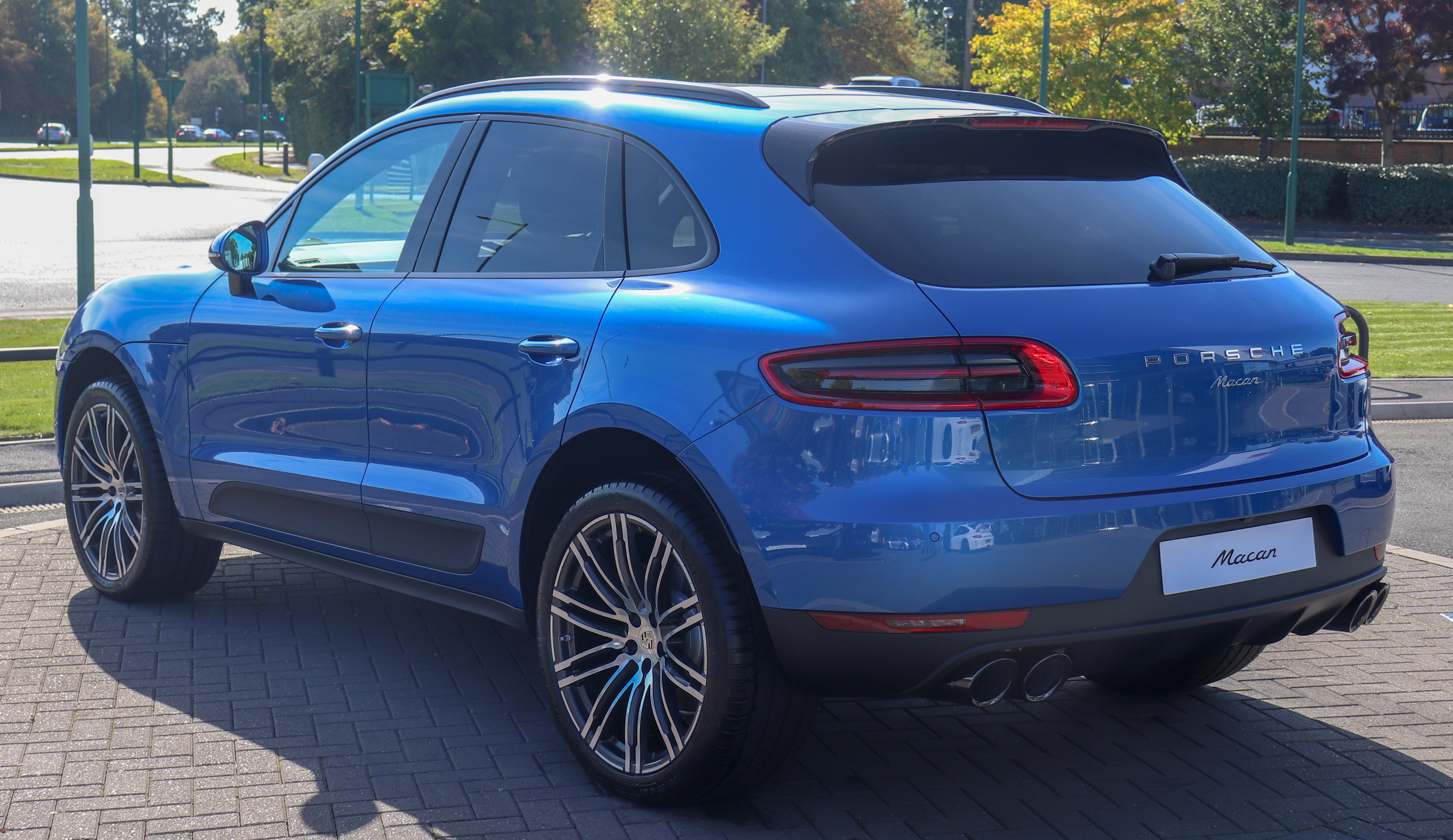 2018 Porsche Macan 2.0 Rear Taken in Solihull